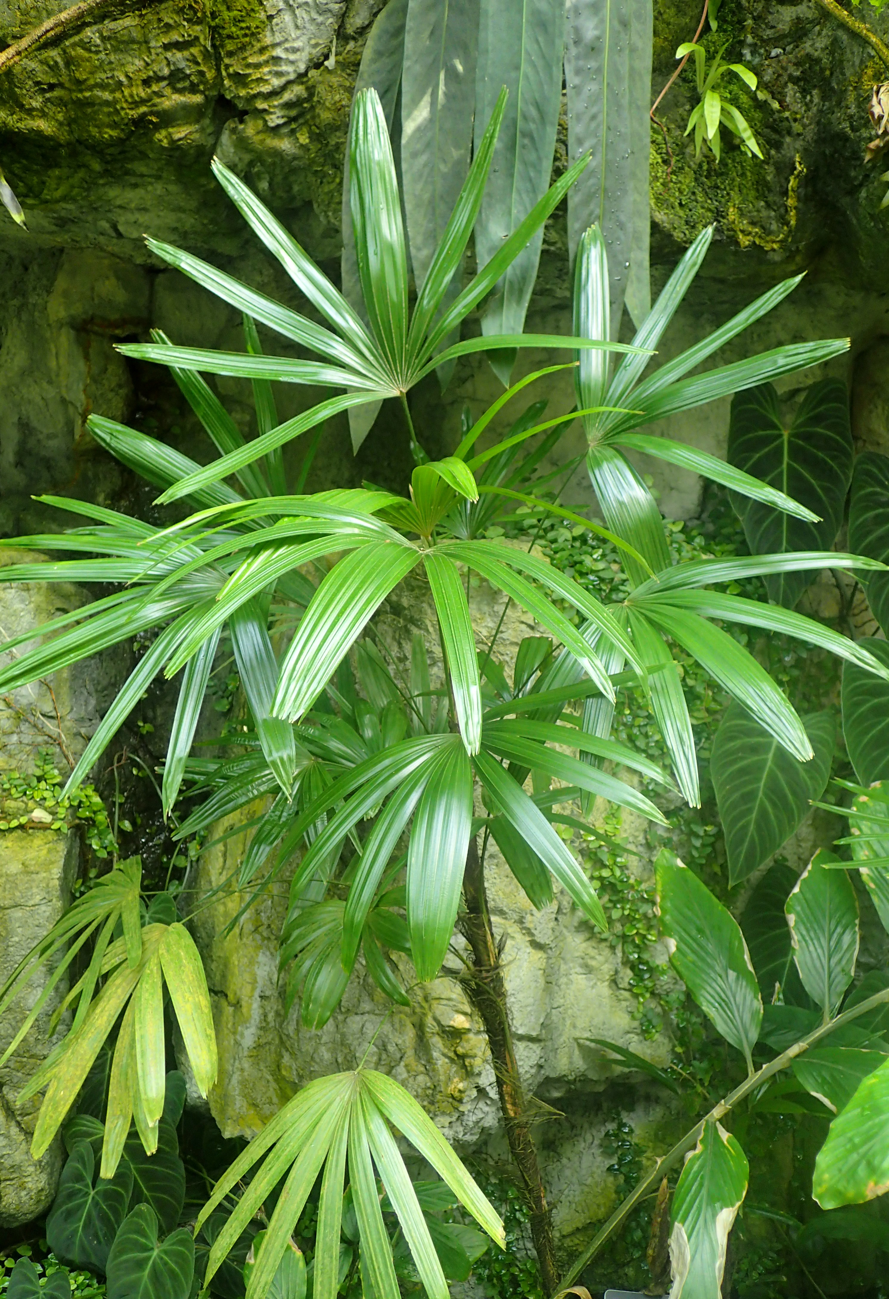 Rhapis excelsa in the Missouri Botanical Garden, St. Louis